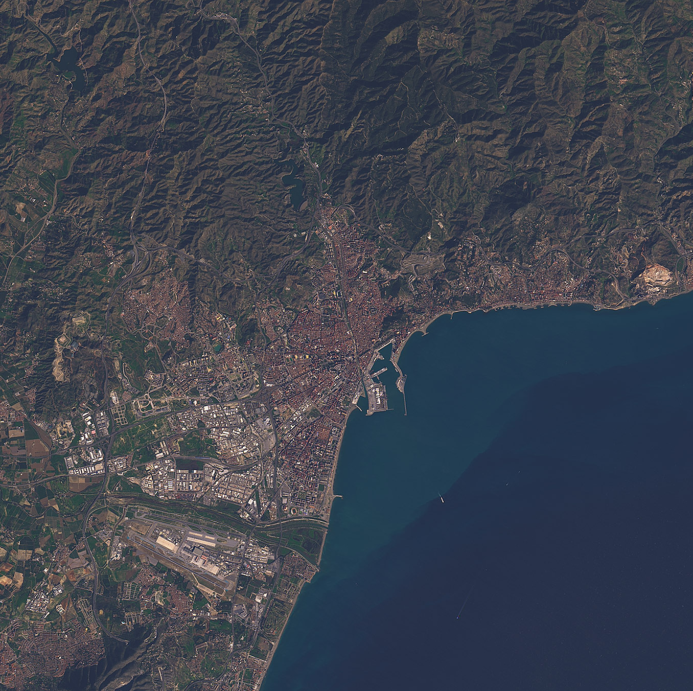 Observational Data courtesy of Landsat 8 satellite (Bands: 2, 3, 4, 8) & USGS. Data processed by Paul Quast. Data Specifications: Coordinates: 36.0208, -5.1121. Acquired: 17-Jan-2017 (Entity ID: LC82010352017017LGN00, Path: 201, Row: 35). Features of interest: Gibraltar [Middle]. Tangier, Morocco [Middle-Left]. Malaga, Spain [Top-Right]. Parque Natural Los Alcomocales [Middle].